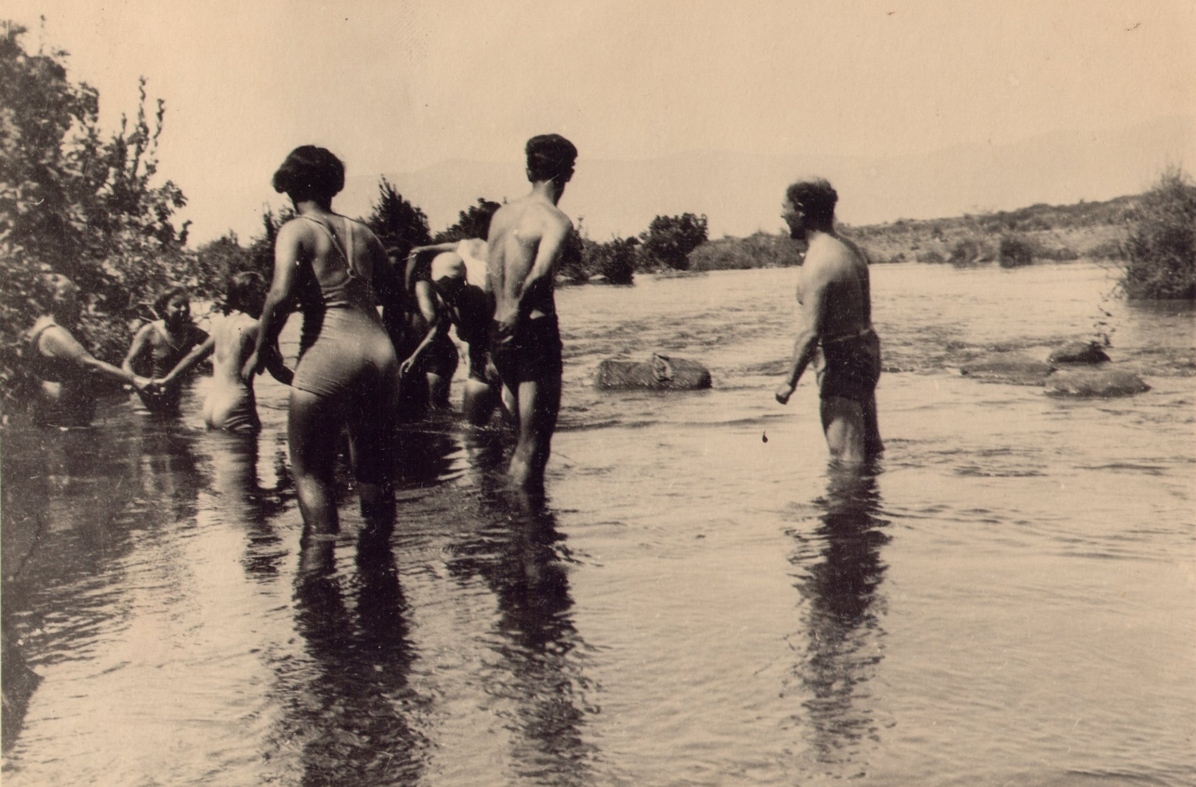 Moshe Carmi